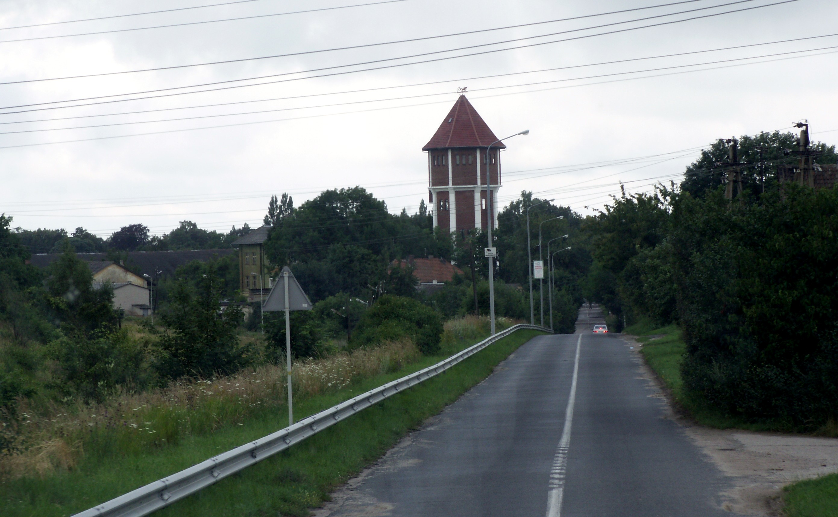 Yantarny in Kaliningrad oblast